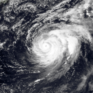 Typhoon Ryan on September 7, 1992, with winds of 115 knts (130 mph, 215 km/h) and a pressure of 945 mbar.